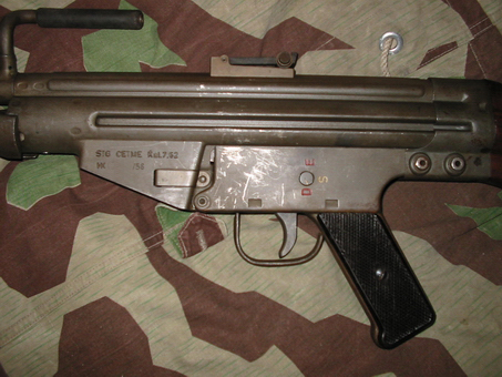 First model "SturmGewehr" developed for the new German BundesWehr (BW) from CETME in Spain called StG CETME Mod. A-2b in 7,62x51 NATO caliber, in later 1956's. Marking Marks.